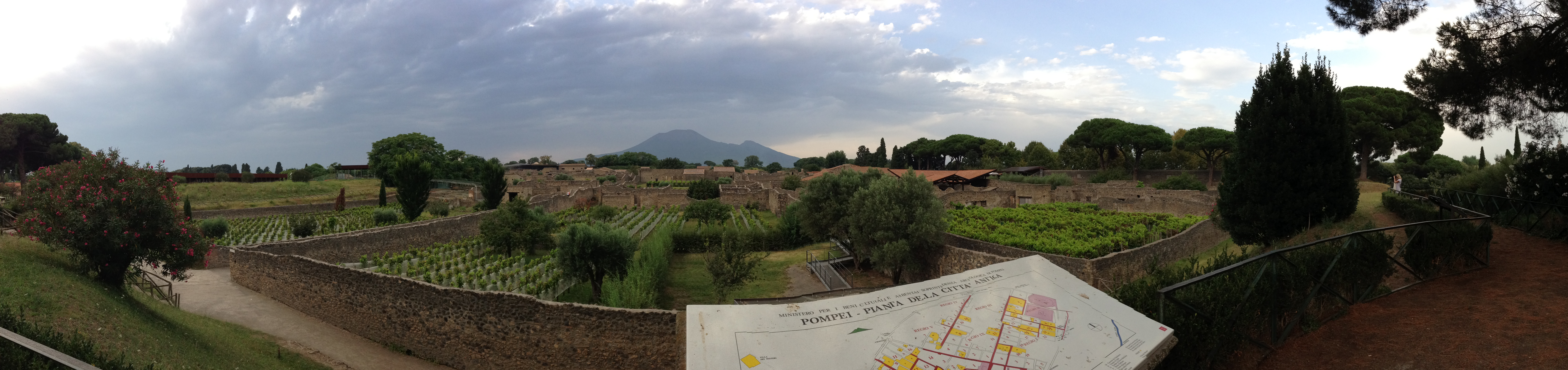 Panoramic view of Pompei ruins and Vesuvio volcano